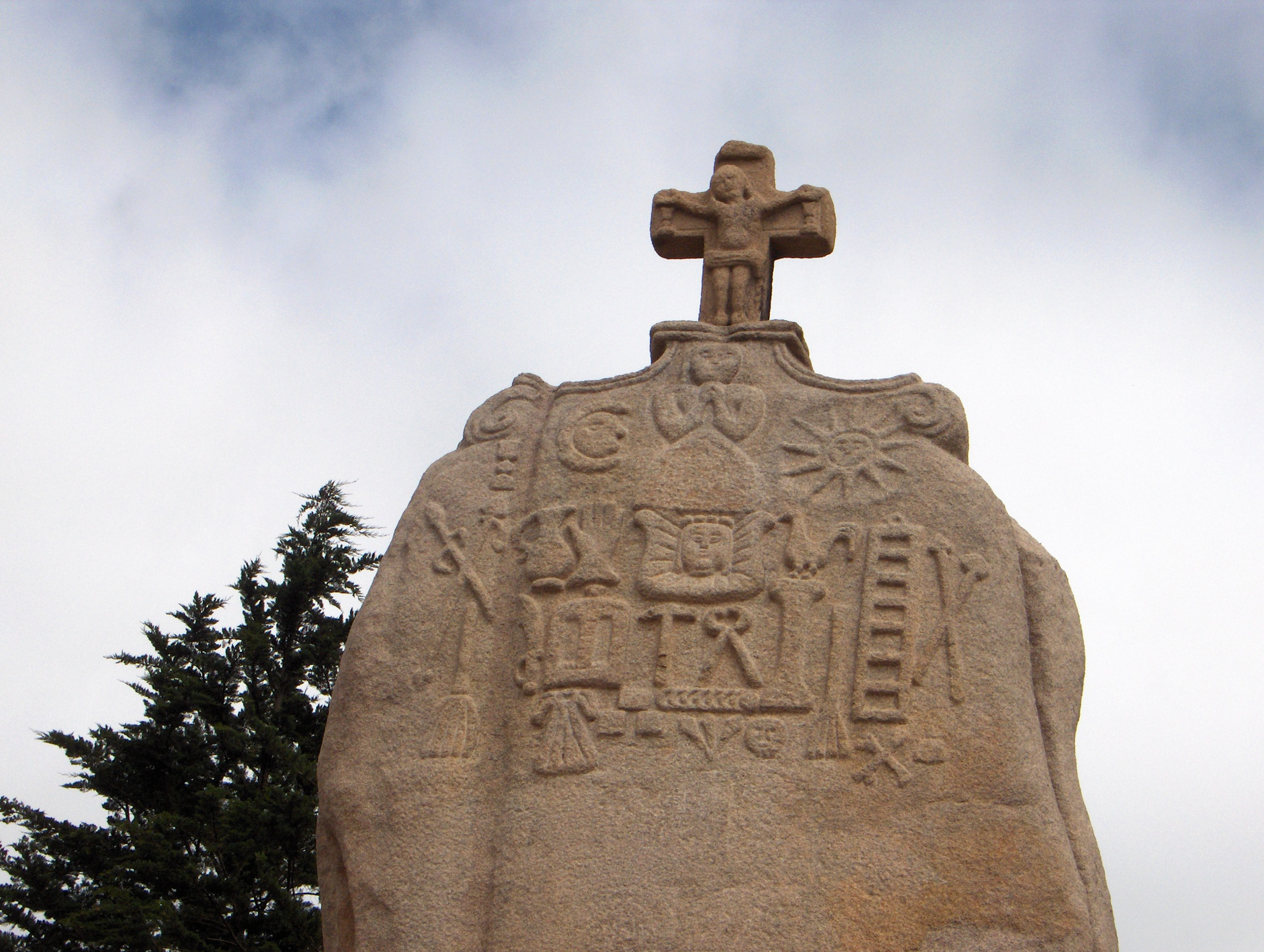 Christianized menhir of Saint-Uzec in Pleumeur-Bodou, France - close-up.